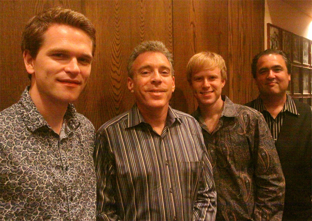 with members (left to right) Mads Tolling (violin), Mark Summer (cello), Jeremy Kittel (viola), and David Balakrishnan (violin) backstage at the Bartlesville Community Center after their appearance at the Annual Week-long OK Mozart Festival in Bartlesville Oklahoma on June 13, 2011. Photo Credit: Hugh Pickens Note: This photo is licensed under a Creative Commons Attribution 3.0 license which means that attribution must be provided with any use of this photo in the manner specified by the author. Any use of this photo or any derivative work using this photo in print or on the web must include as an attribution, a photo credit to Hugh Pickens as indicated above and, if used on the web, must include a link to the web site of Hugh Pickens at